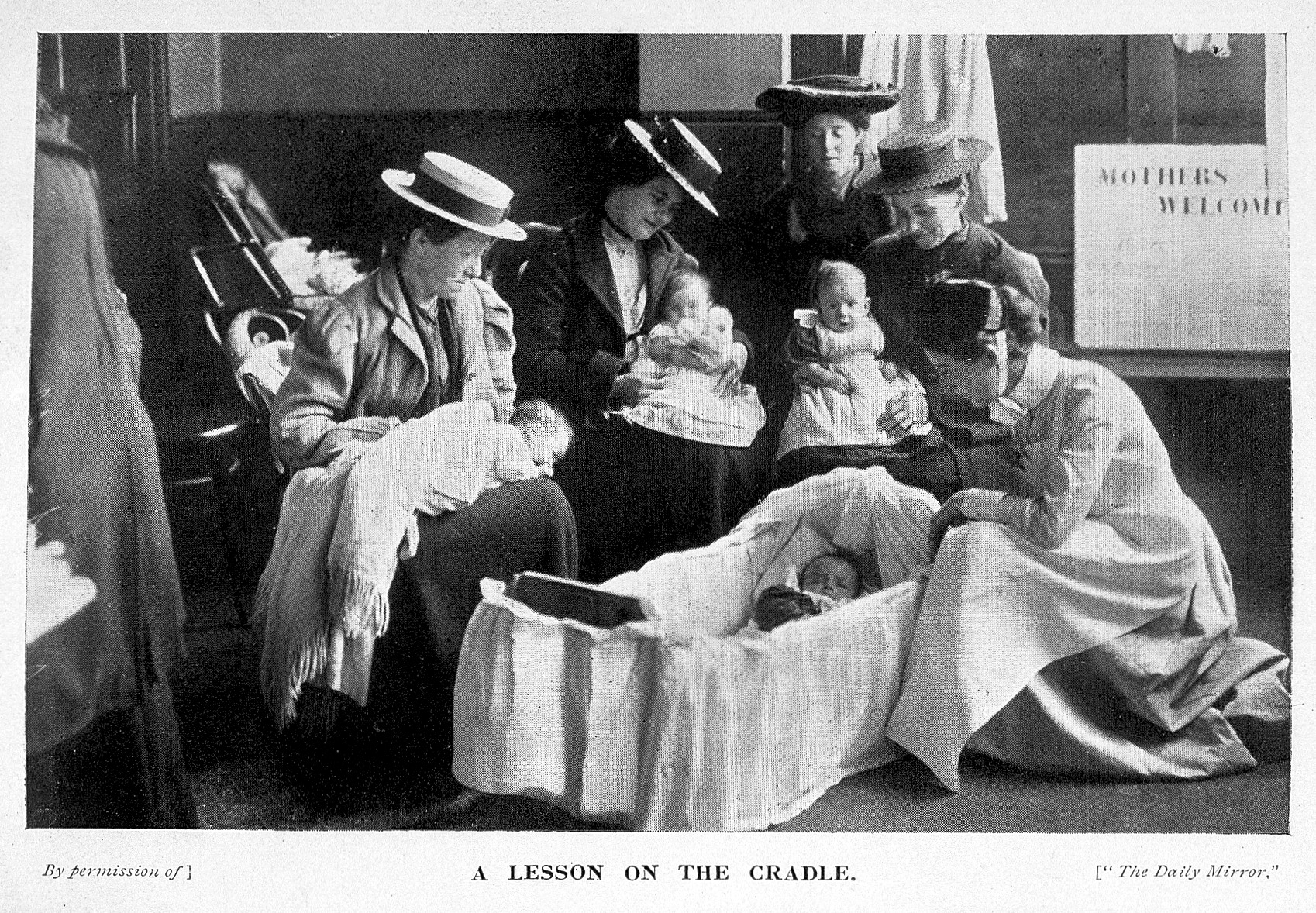 A lesson on the cradle General Collections Keywords: Bunting, Evelyn M., et al.